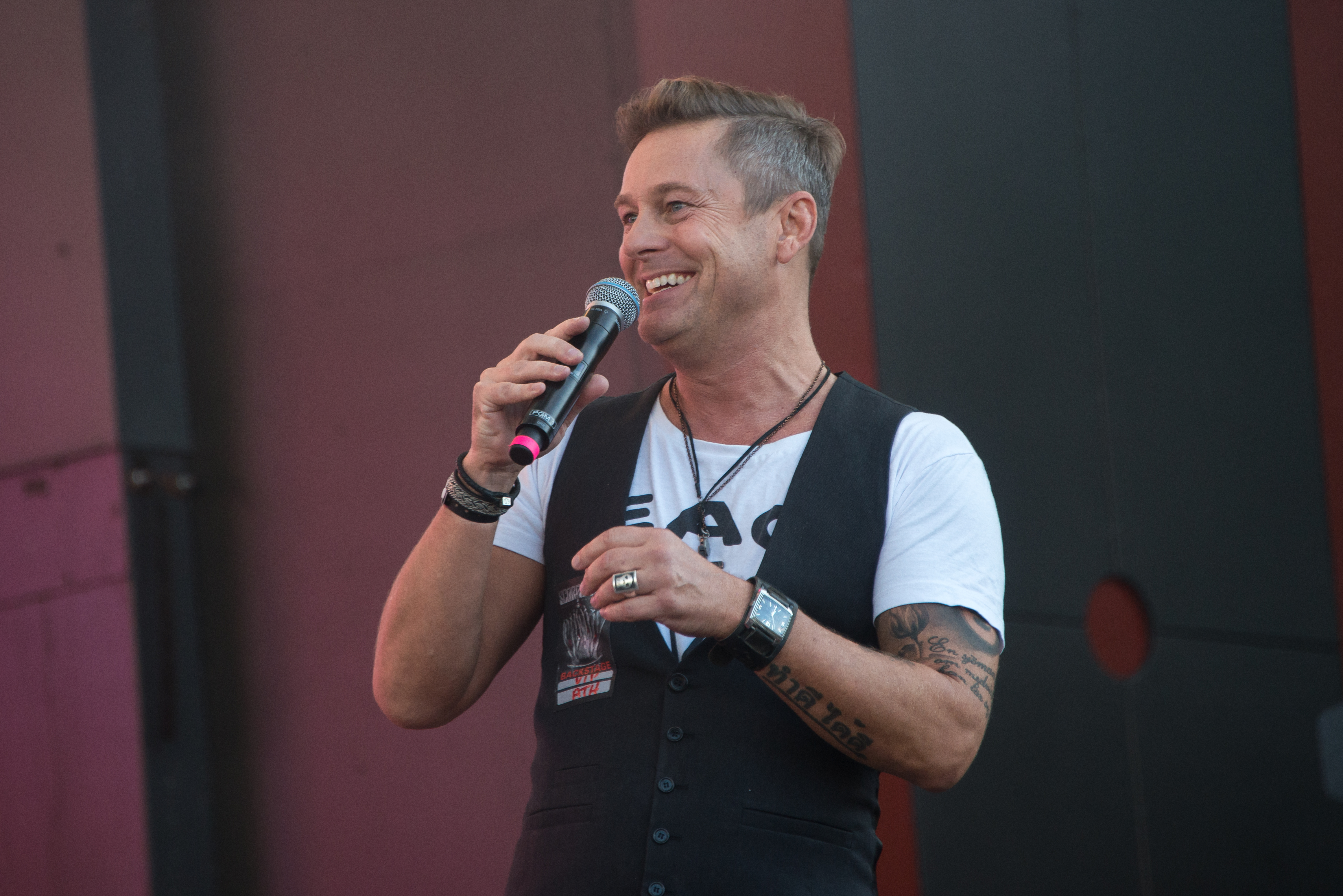 Niclas Wahlgren during the RIX FM Festival 2016 in Kungsträdgården in Stockholm.